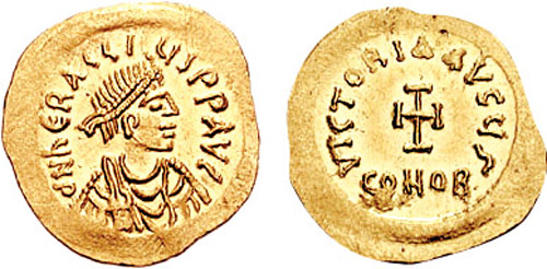 Heraclius. 610-641 AD. AV Tremissis (1.47 gm, 7h). Constantinople mint. Struck 610-613(?) AD. dN hERACLIUS PP AVI, diademed, draped, and cuirassed bust right VICTORIA AVGU, cross potent; S/CONOB. DOC II 53b; MIB III 73s; SB 786. EF, light scratches